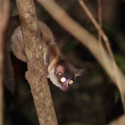 Taita mountain dwarf galago from Taita Hills Kenya 2019